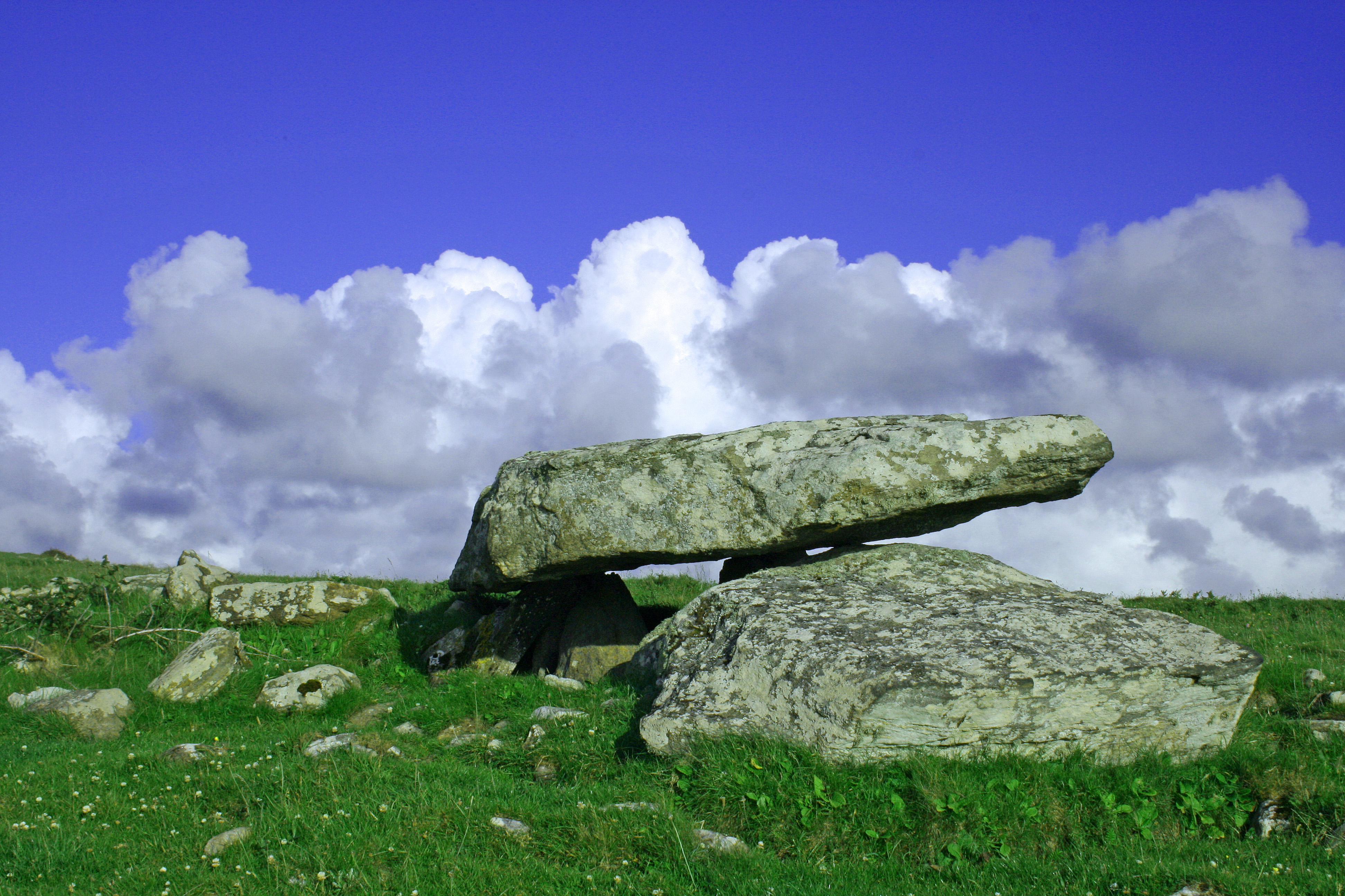 Monolithic grave Sallerna Bay